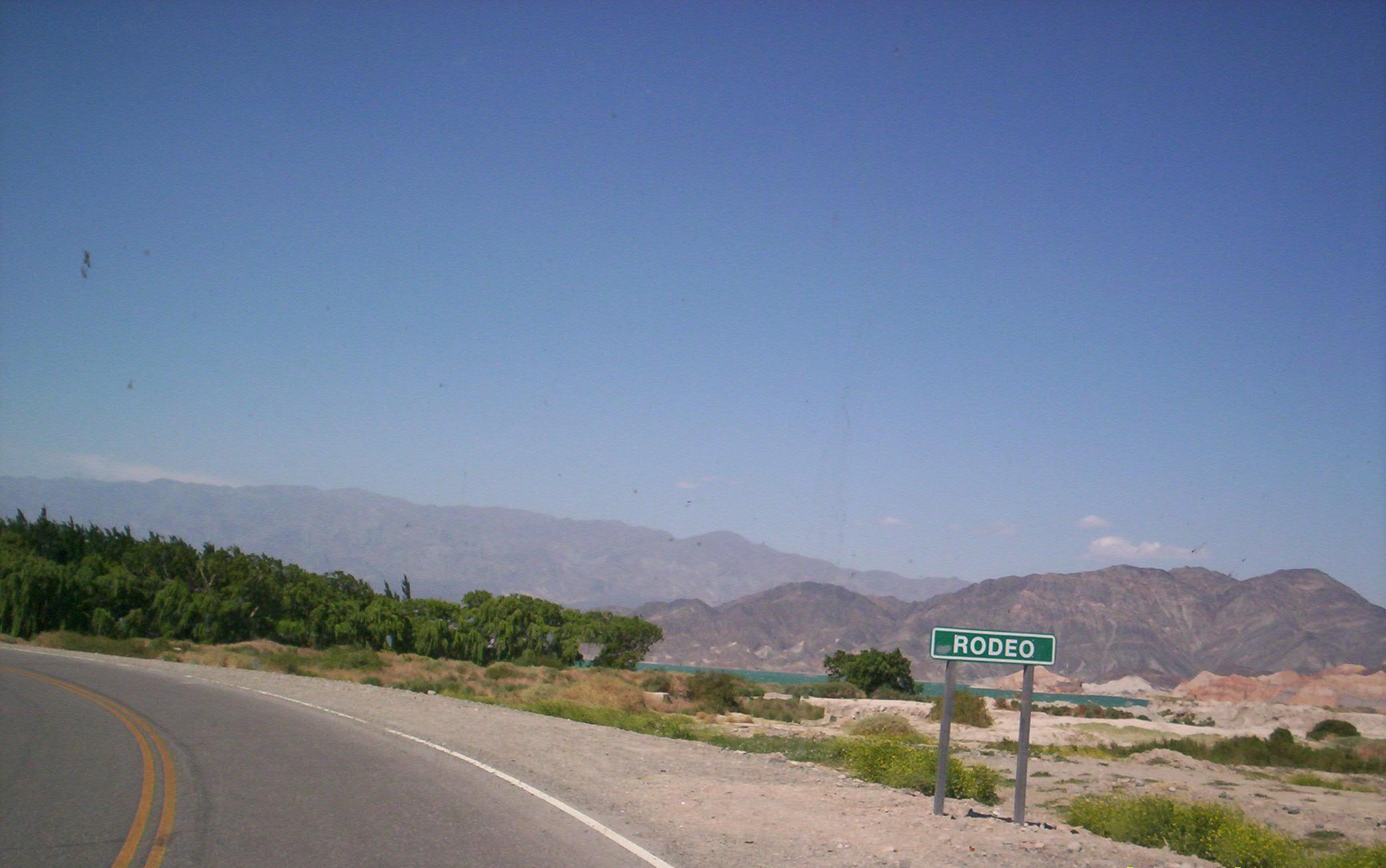 Photograph shows that the National Route 150 in number and the entrance to the town of Rodeo in the Department Iglesia, in the province of San Juan, Argentina